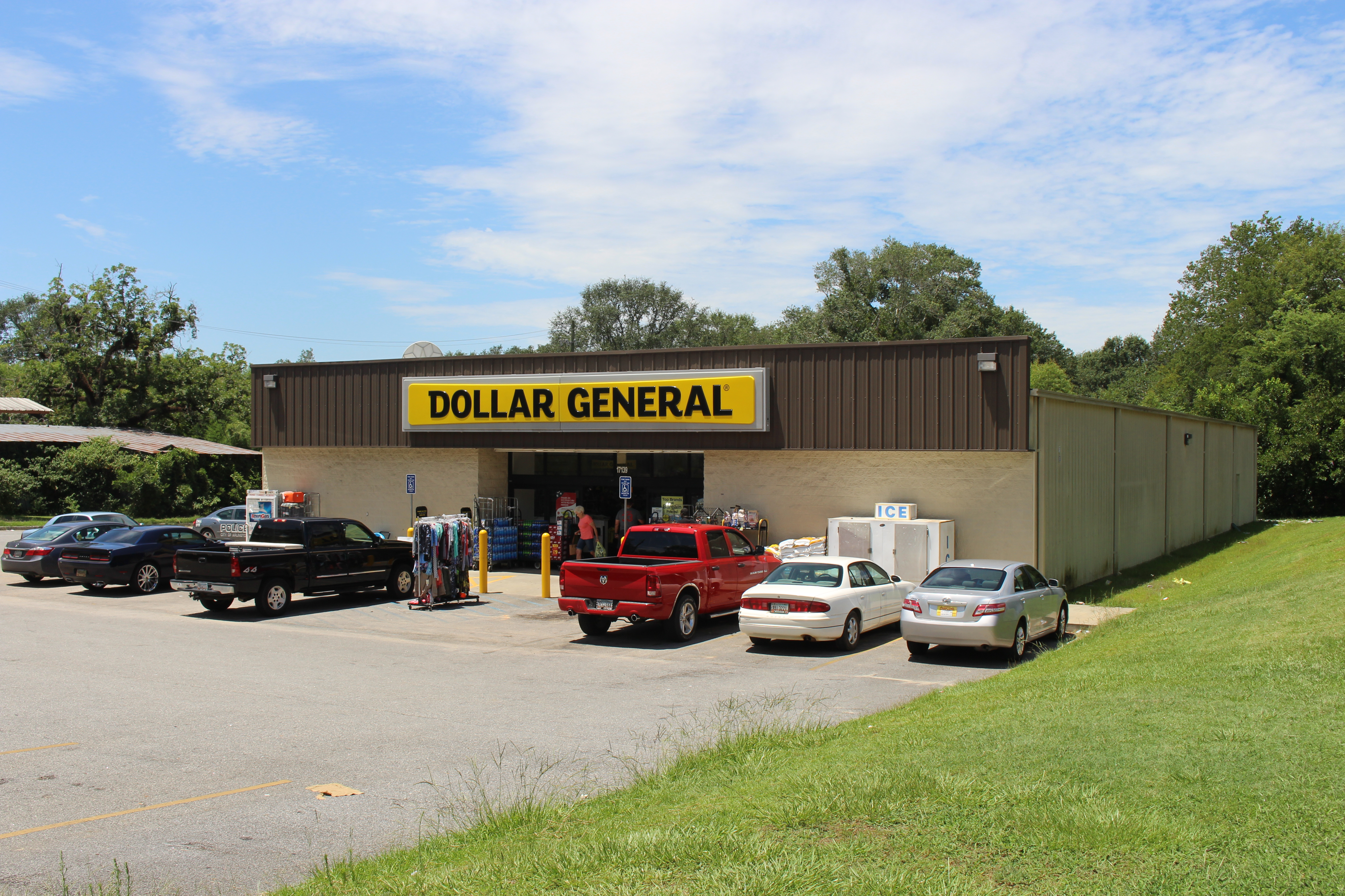 Arlington, Early County, Georgia